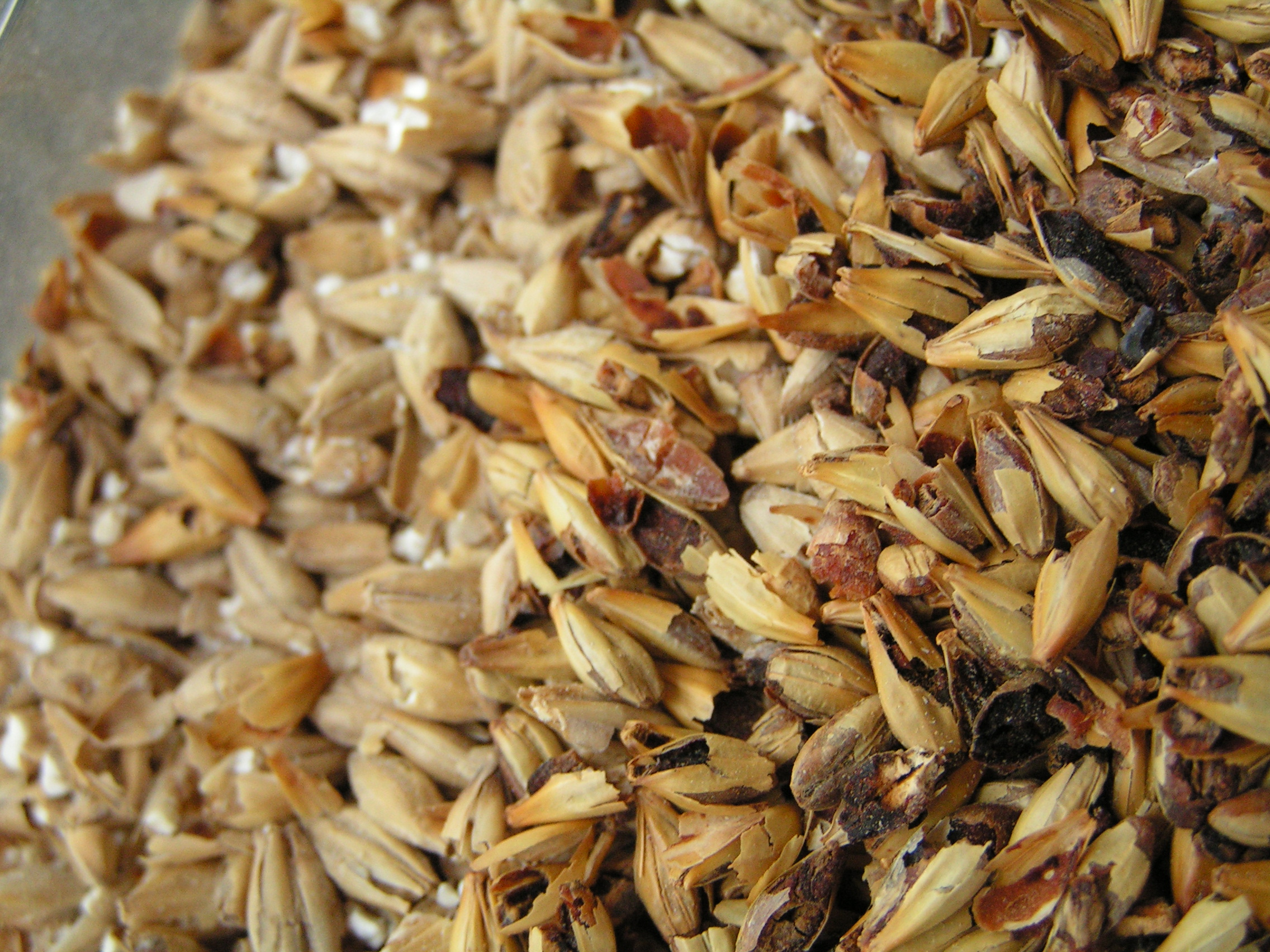 Malted Barley, more specifically a "Crystal Malt".